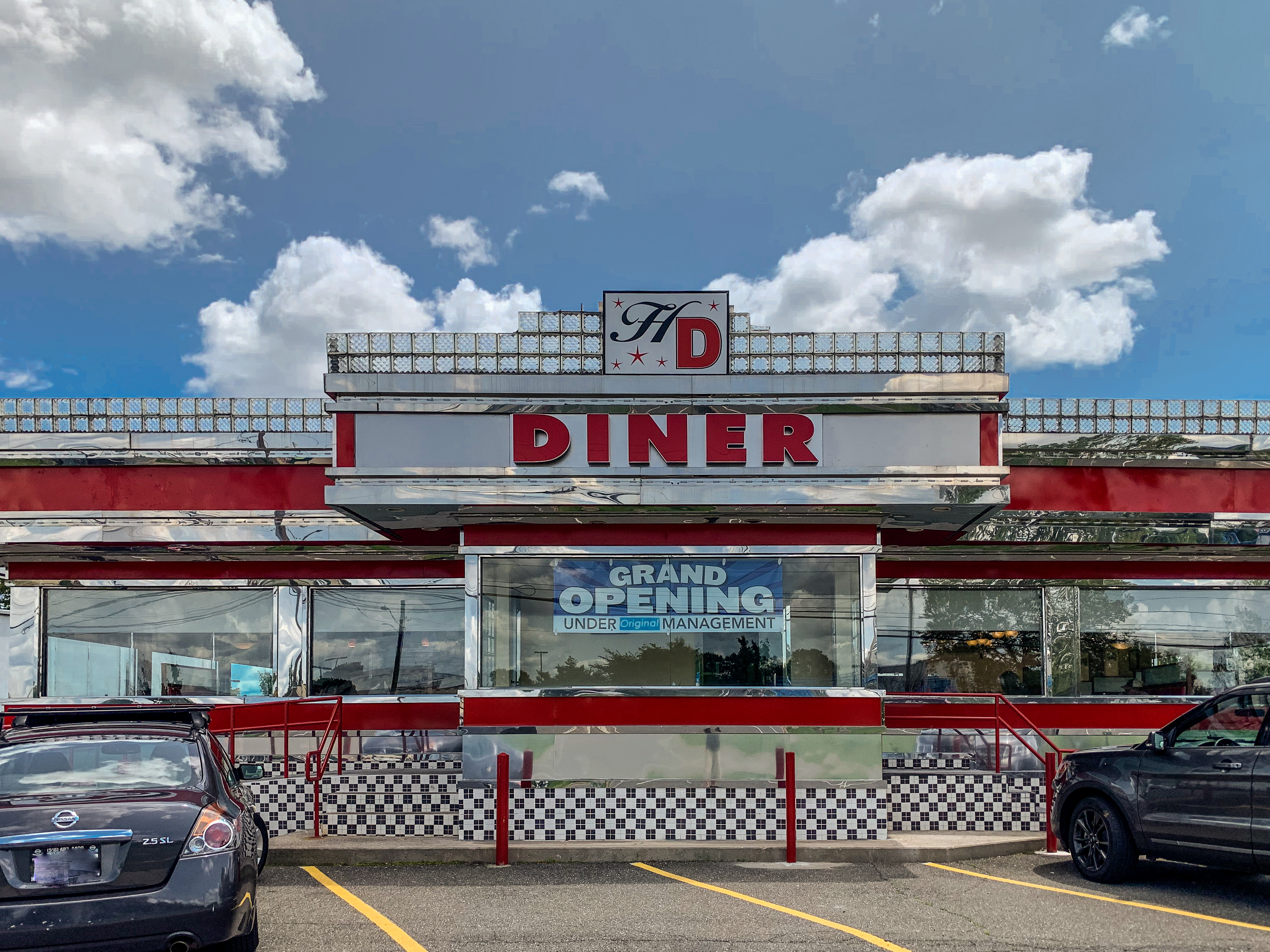 Hicksville Diner, a historic diner on Old Country Road at Oyster Bay Road, Hicksville NY.